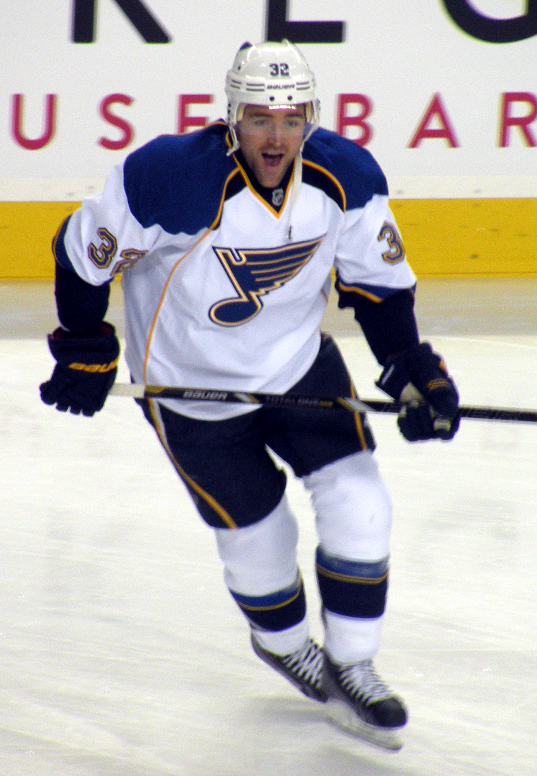 St. Louis Blues forward Chris Porter prior to a National Hockey League game in Calgary